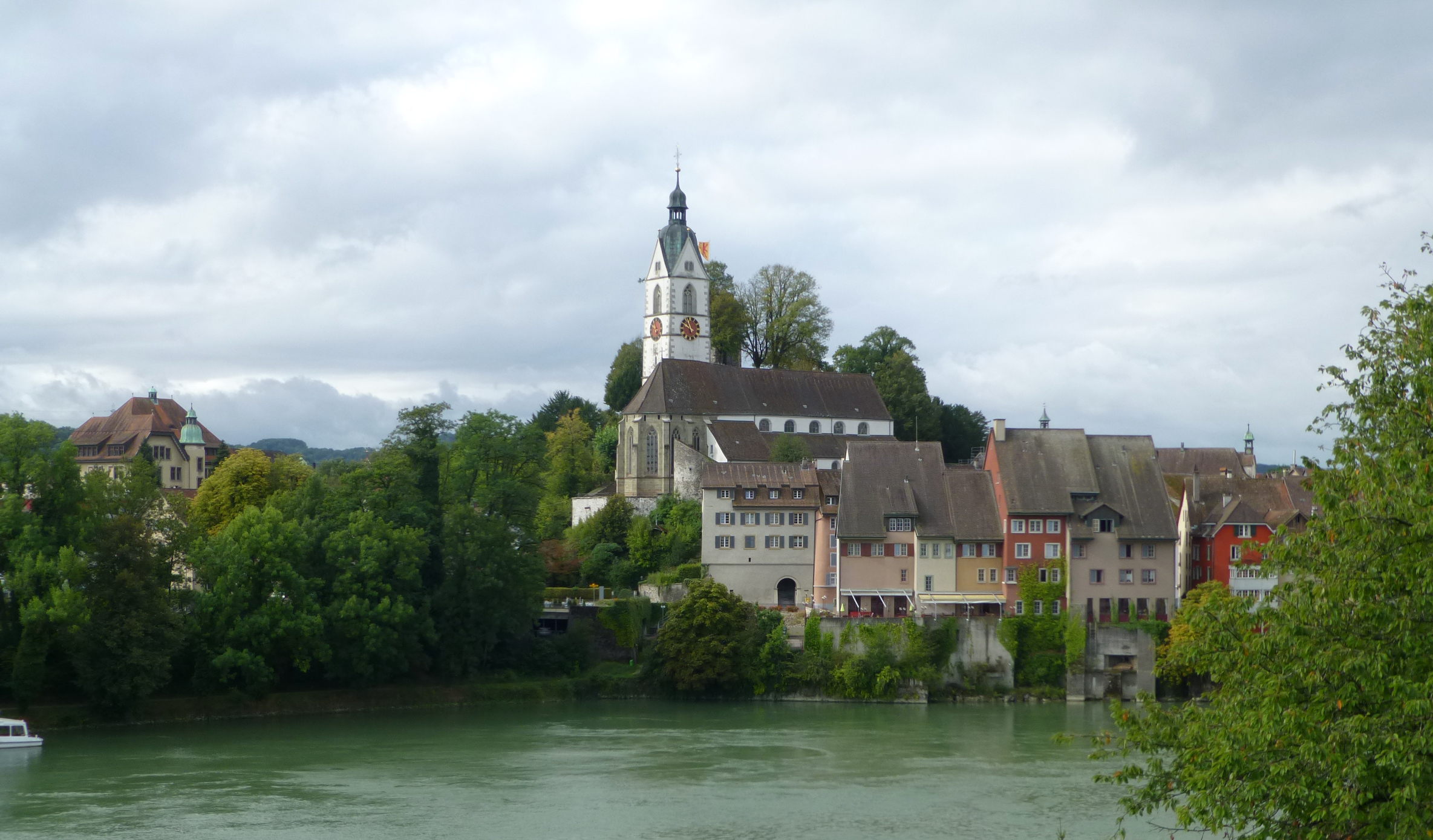 Laufenburg and Rhine in Switzerland, viewed from the German side (Landkreis Waldshut).